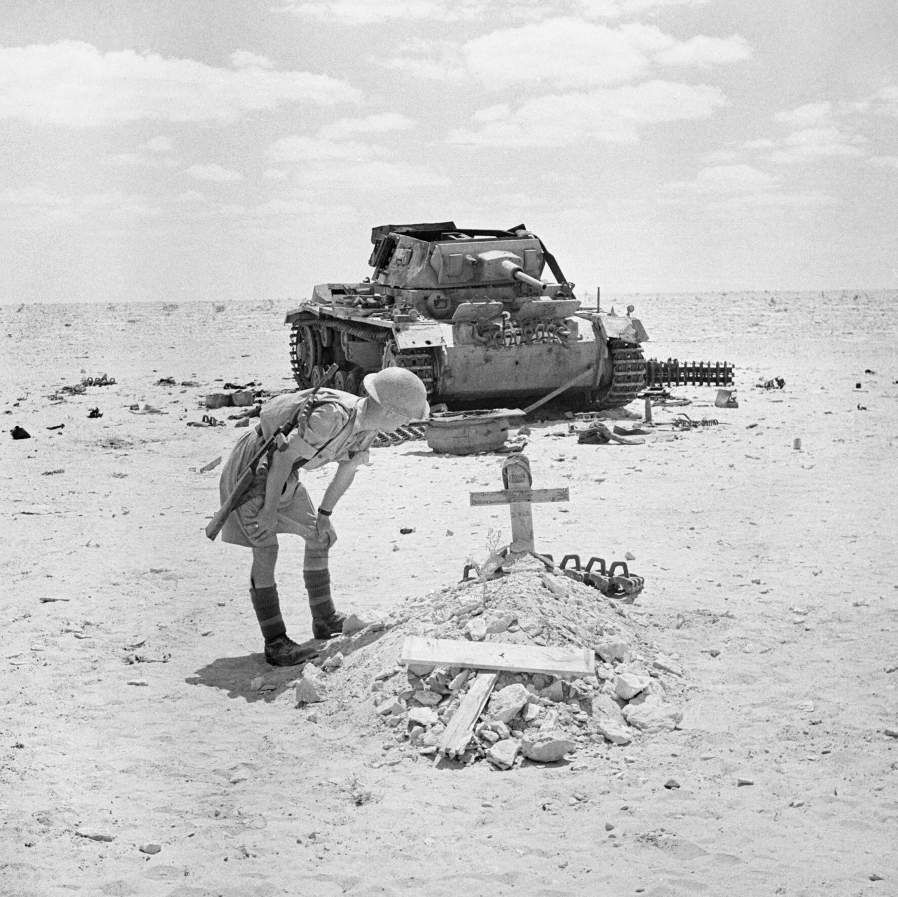 A British soldier inspects the grave of a German tank crewman, killed when his PzKpfw III tank was knocked out in the Western Desert, 29 September 1942. A soldiers stops to inspect the grave of a German tank crew, killed when their PzKpfw III tank, seen in the background, was knocked out in recent fighting in the Western Desert, 29 September 1942.